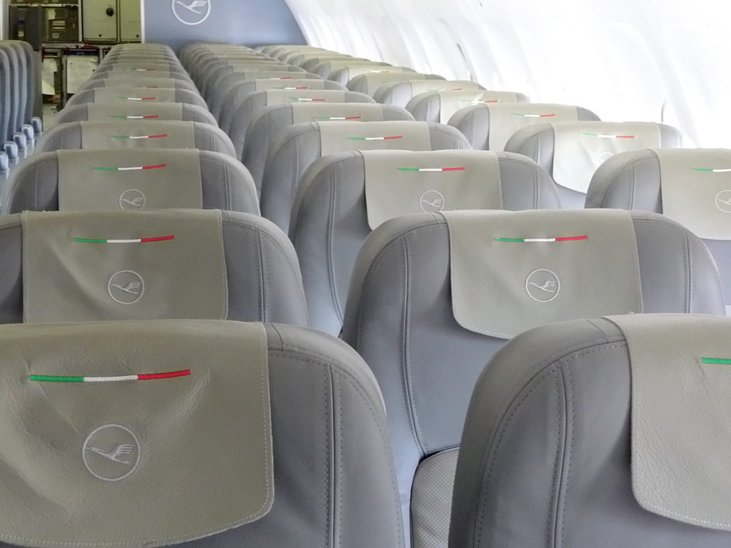 View into the cabin of a Lufthansa Italia aircraft.